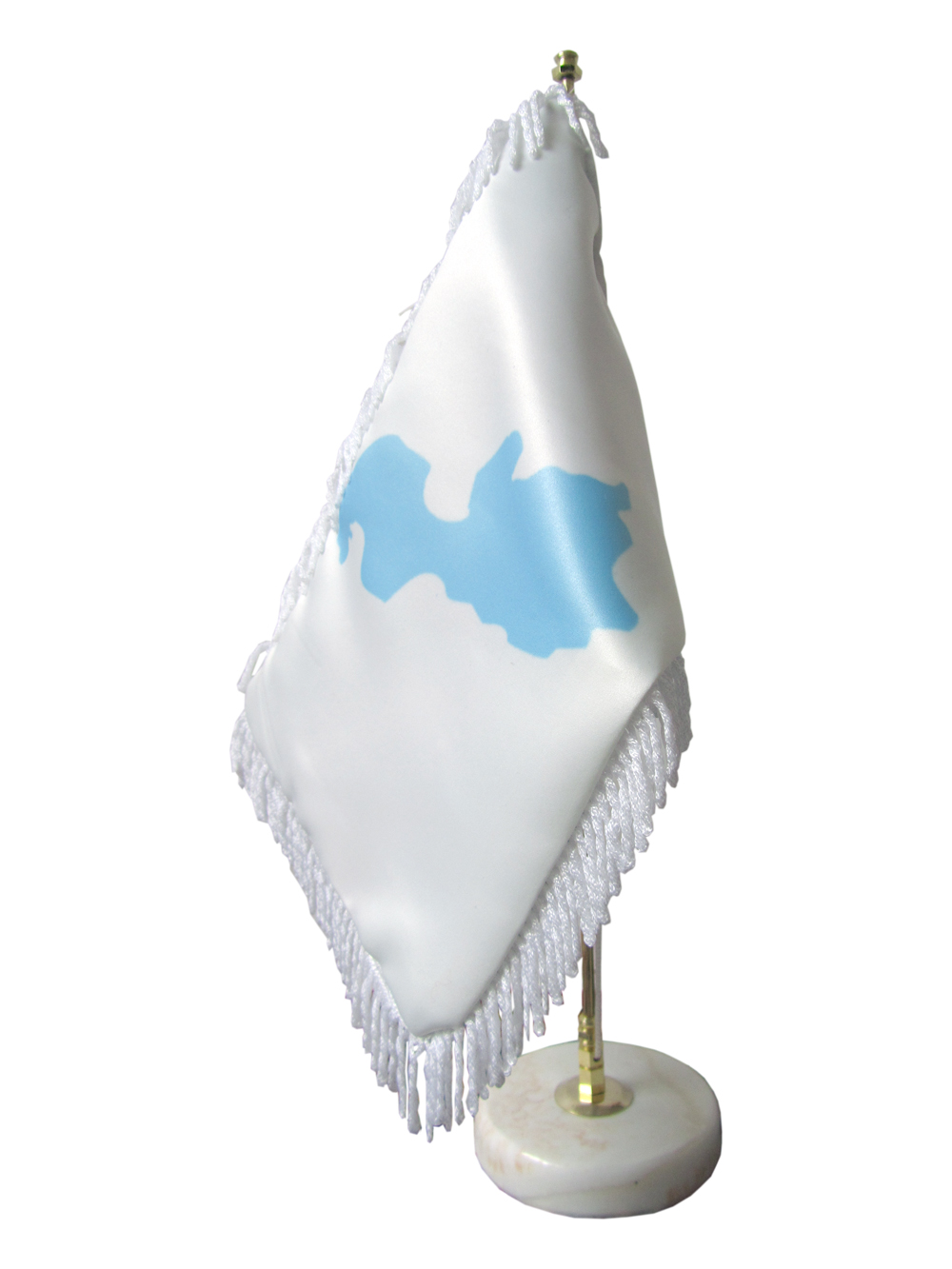 Flag of Lake UrmiaAzərbaycanca: Urmiyə Gölü'nün bayrağı